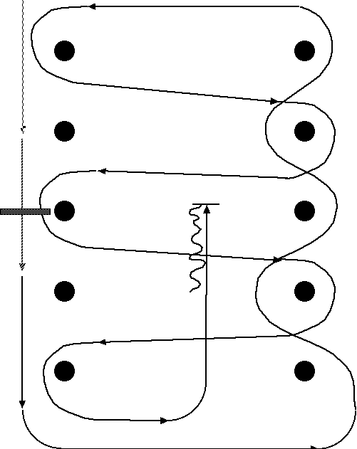 A hand-drawn western riding pattern. Admittedly poor, but not copyrighted!